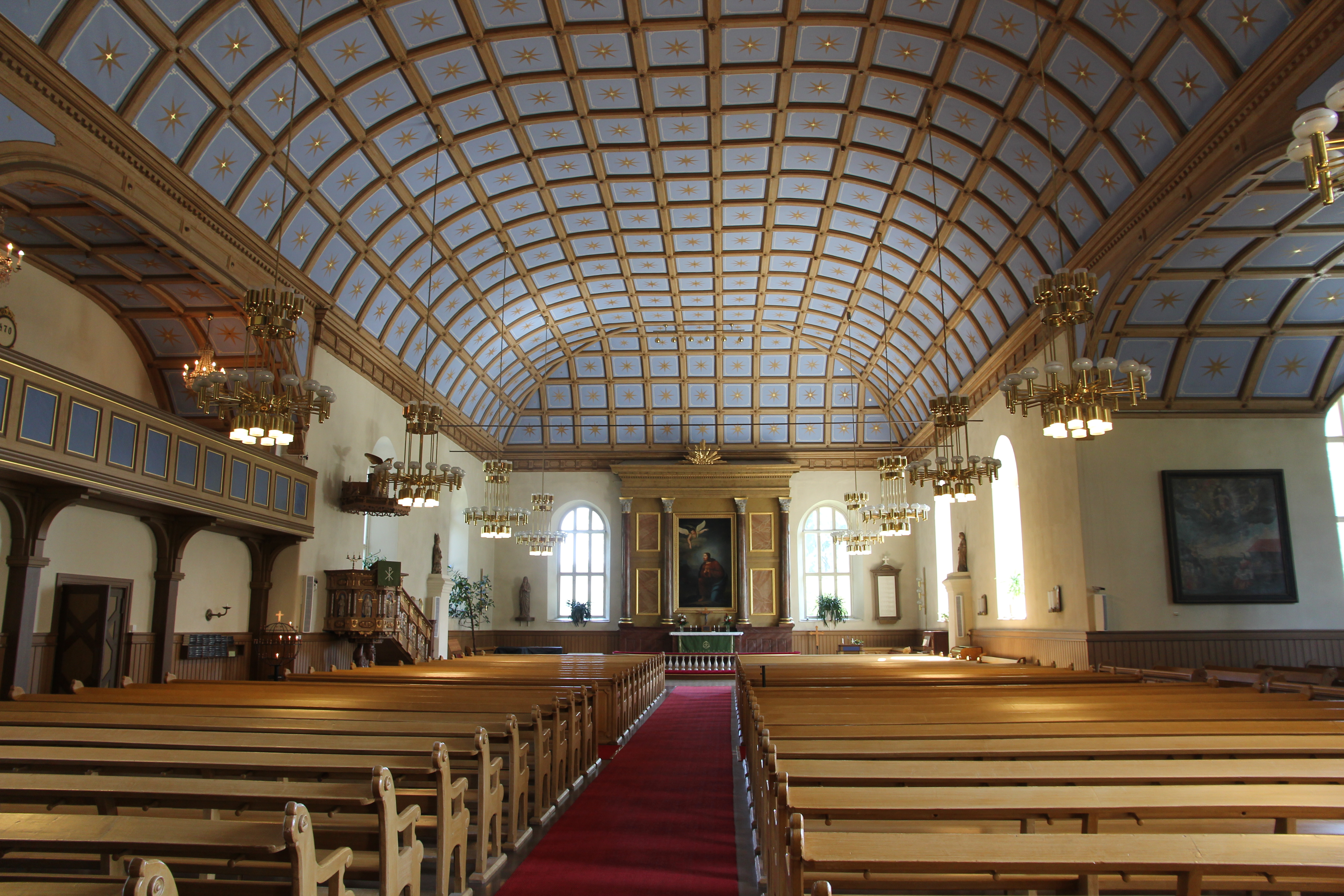 Kangasala Church interior towards altar.